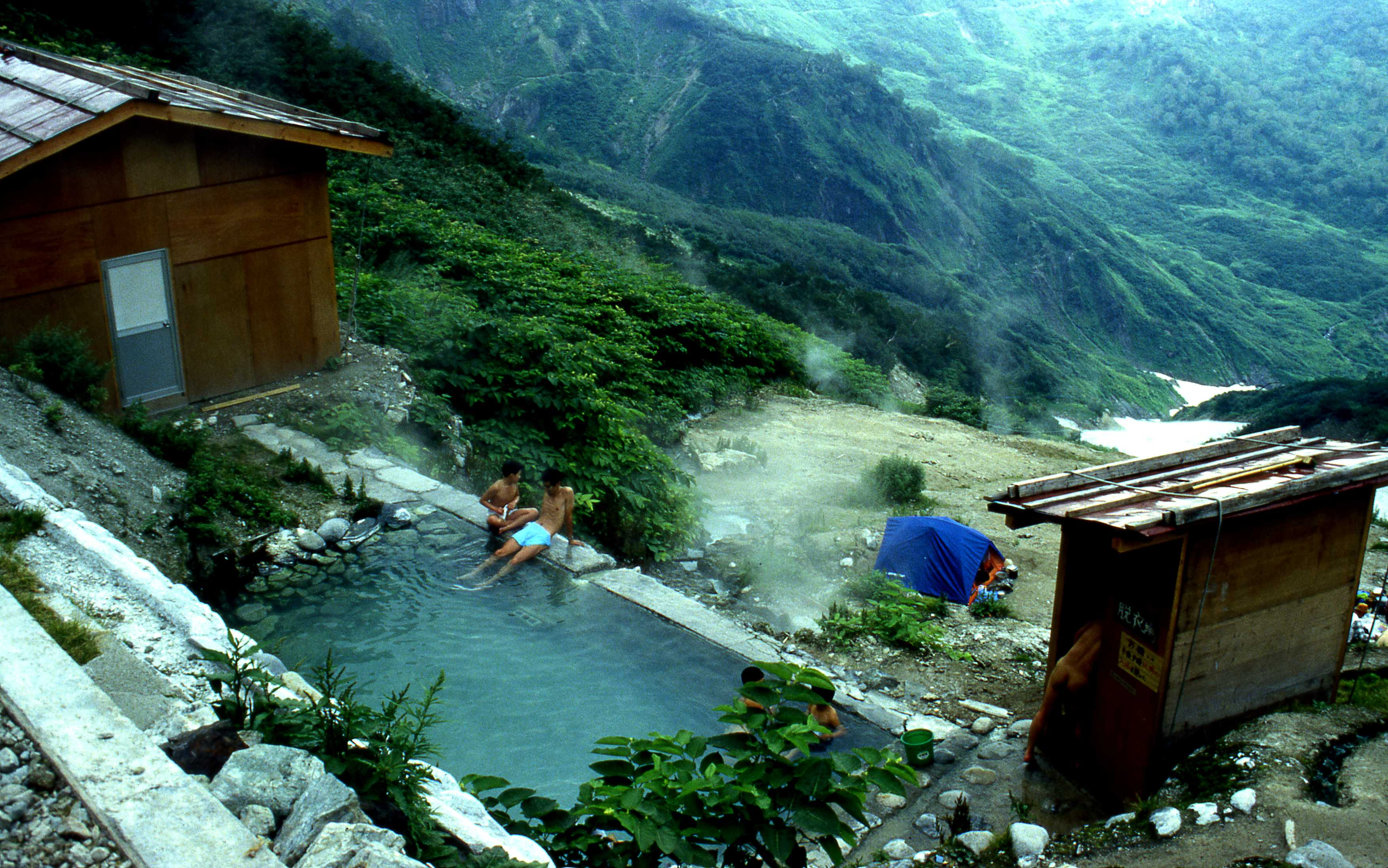 Hakuba Yari Hot Spring in Hida Mountains, Japan